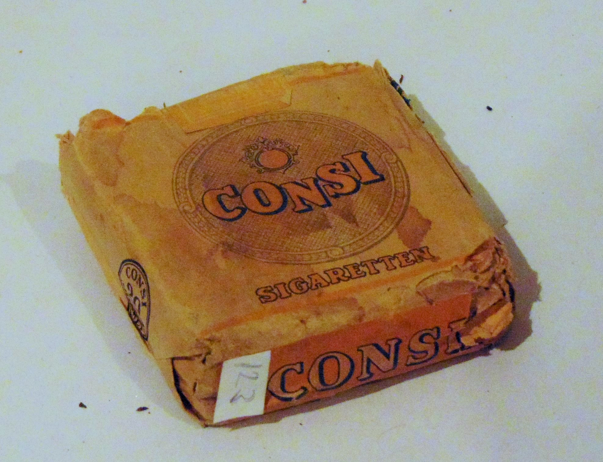 Package of Consi cigarettes, 1940s Photographed in the collection of the National Liberation Museum 1944-1945, the Netherlands, archive number G123